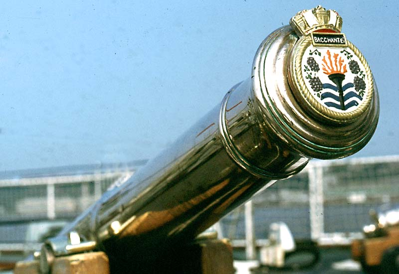 brass canon of the HMS Bacchante